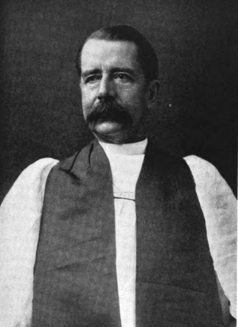 The Rt. Rev. George Herbert Kinsolving, second Episcopal Bishop of Texas. Consecrated October 12, 1892.